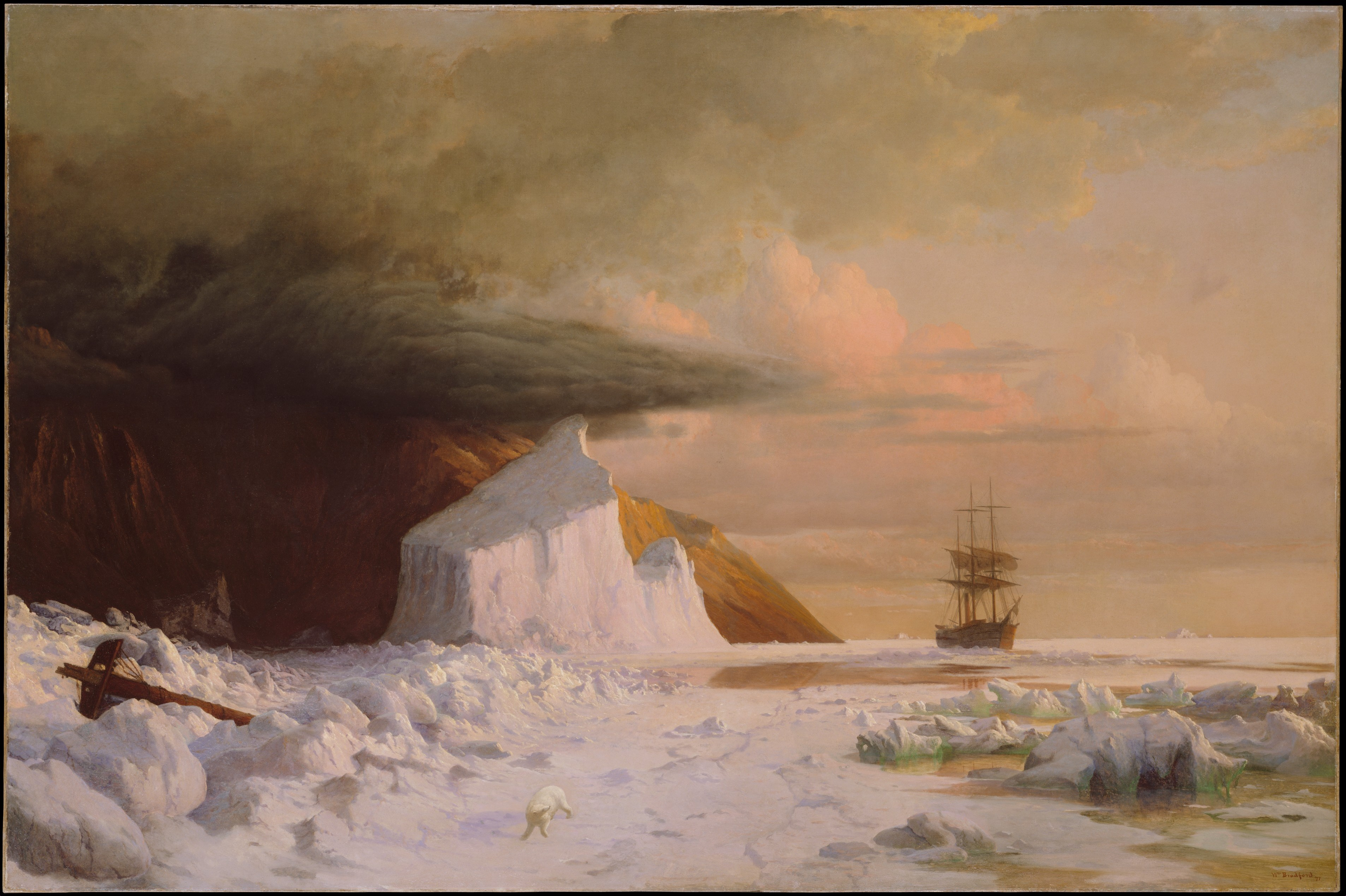 An Arctic Summer: Boring Through the Pack in Melville Bay.